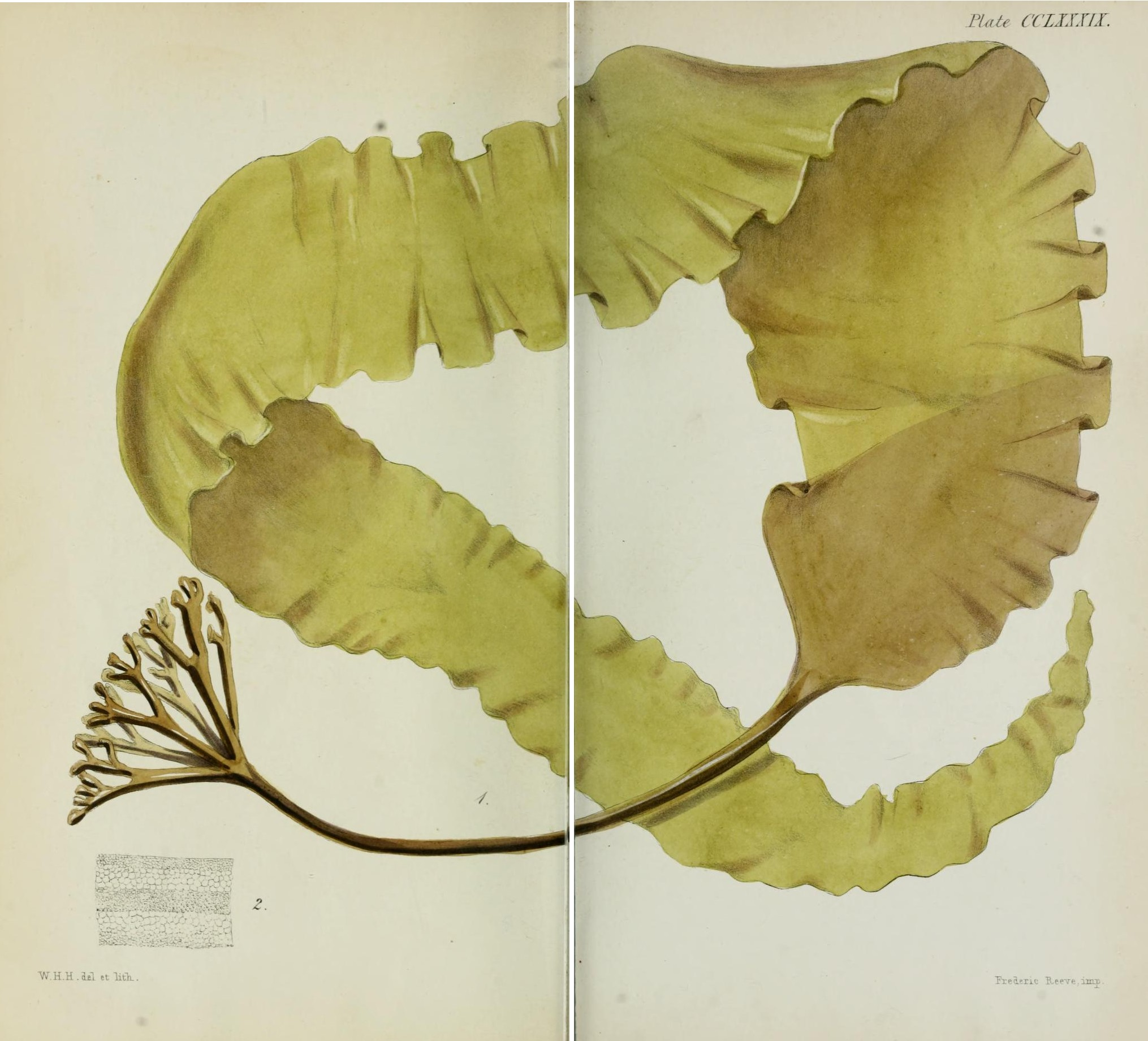 Title: Phycologia Britannica, or, A history of British sea-weeds : containing coloured figures, generic and specific characters, synonymes, and descriptions of all the species of algae inhabiting the shores of the British Islands Year: 1846 (1840s) Authors: Harvey, William H. (William Henry), 1811-1866 Harvey, William H. (William Henry), 1811-1866. History of British sea-weeds Subjects: Marine algae Publisher: London : Reeve Brothers Text Appearing Before Image: ' Text Appearing After Image: ^•..t:ir:-ii«iii-2;isia-.» W.H.H.dil etlitk.